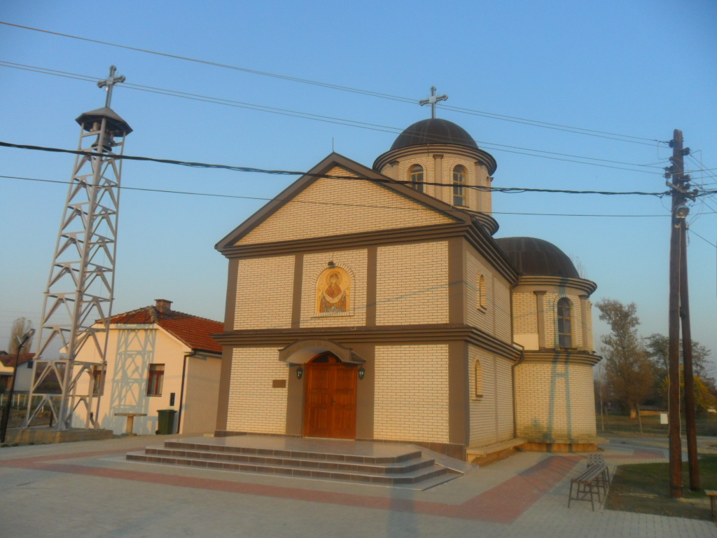 mralino